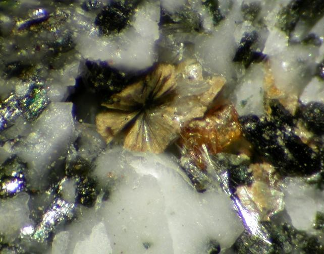 Lourenswalsite Locality: Diamond Jo Quarry, Magnet Cove, Hot Spring Co., Arkansas, USA Light brownish rosette of Lourenswalsite, field of view 2,5 mm. Specimen and photo Leon Hupperichs.